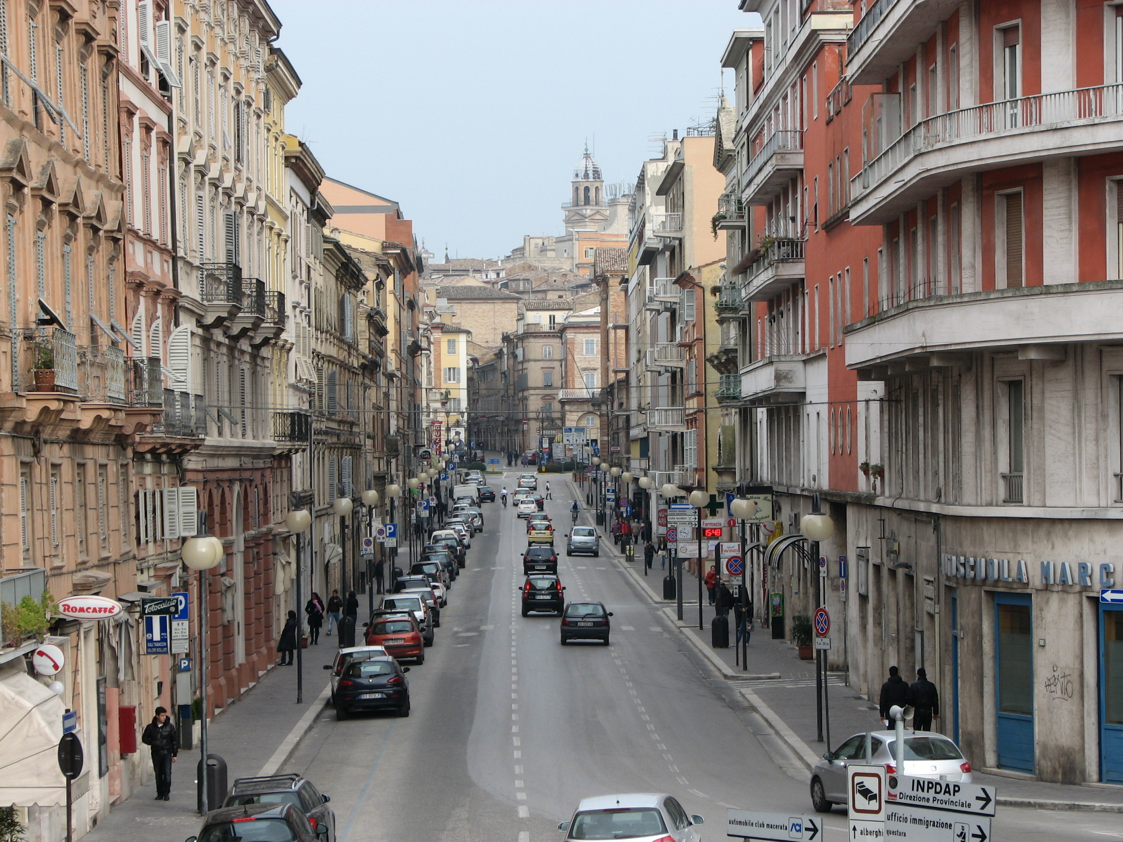 Corso Cavour, Macerata, Italy, 2010